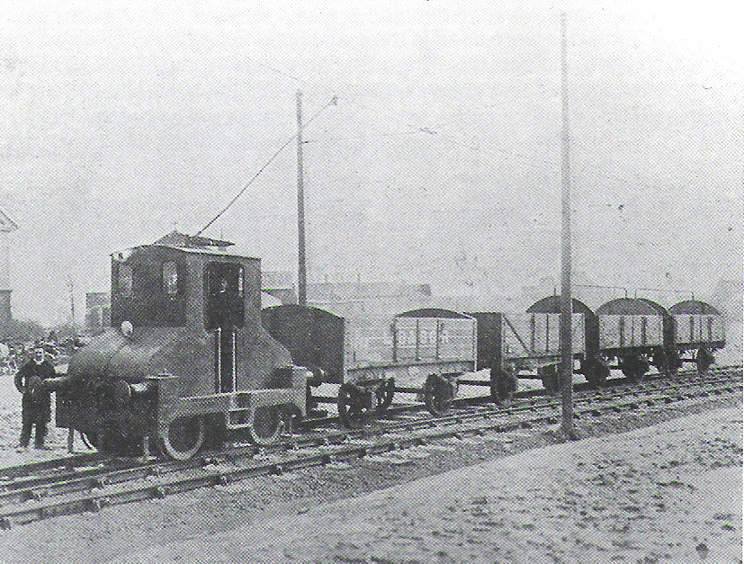 Locomotive & freight cars of the Hellingly Hospital Railway